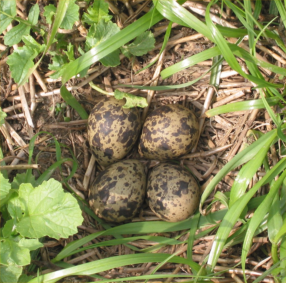 Vanellus vanellus nest